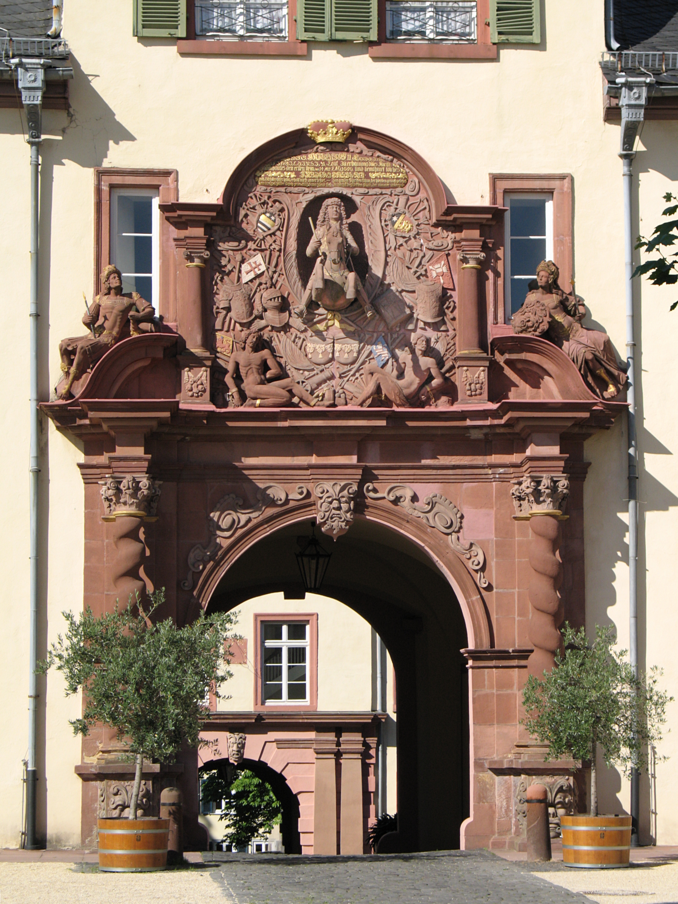 The upper gate at the inner courtyard of Bad Homburg castle with a baroque architrave. Bad Homburg vor der Höhe, Germany.